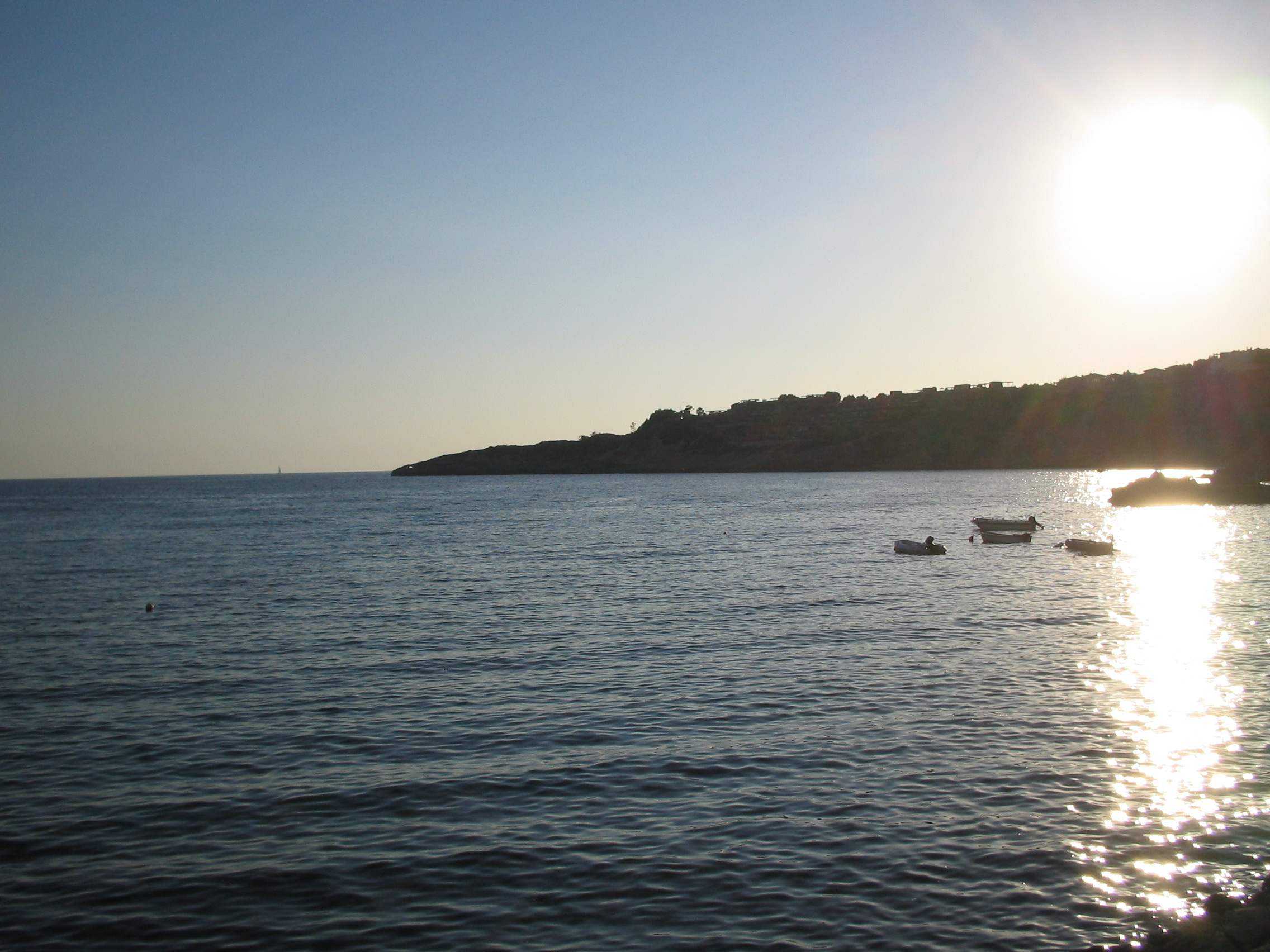 This is a small bay in El Toro in Calvià, Mallorca, Spain.